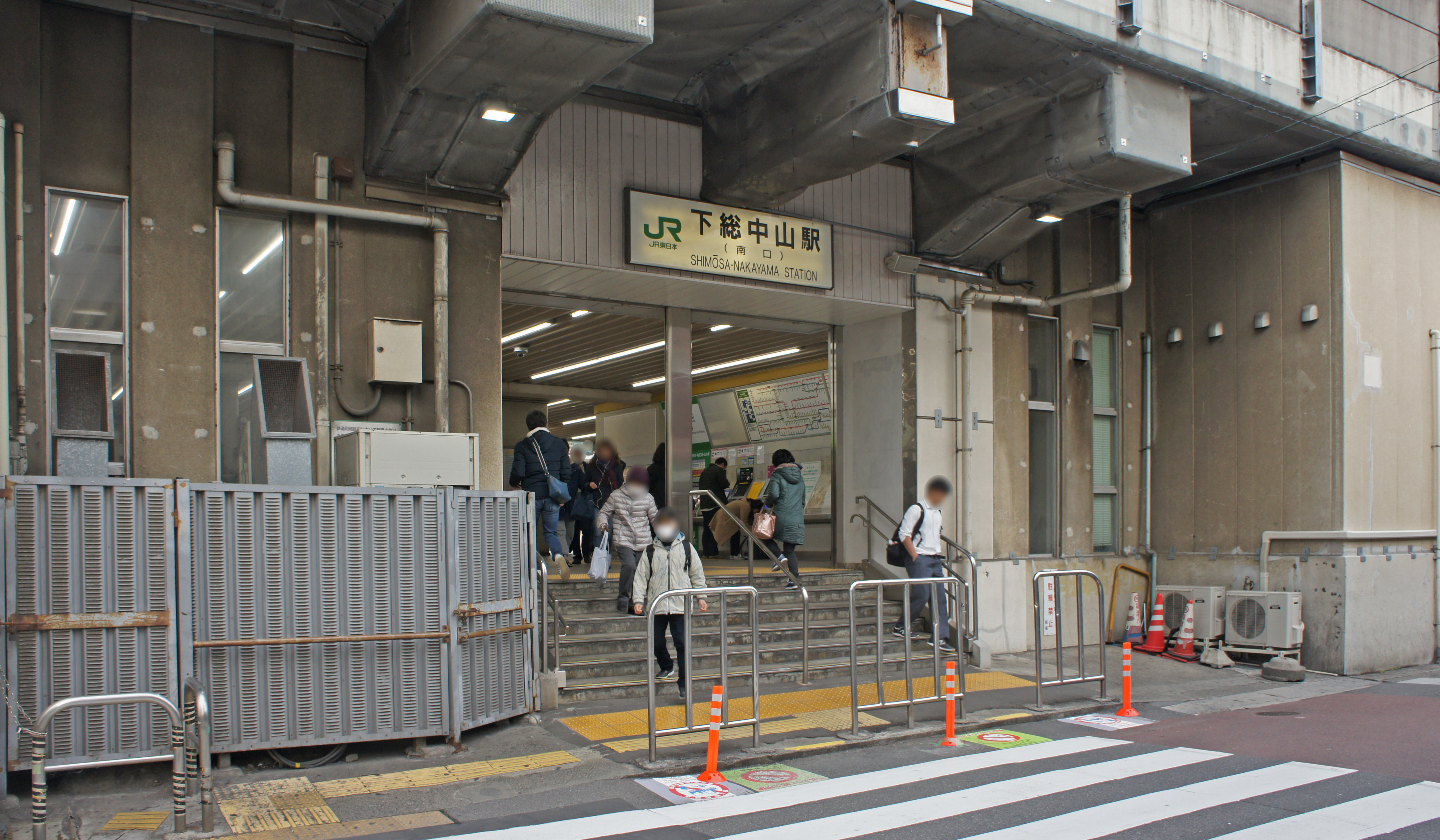 South Exit of JR Sobu-Main-Line Shimosa-Nakayama Station